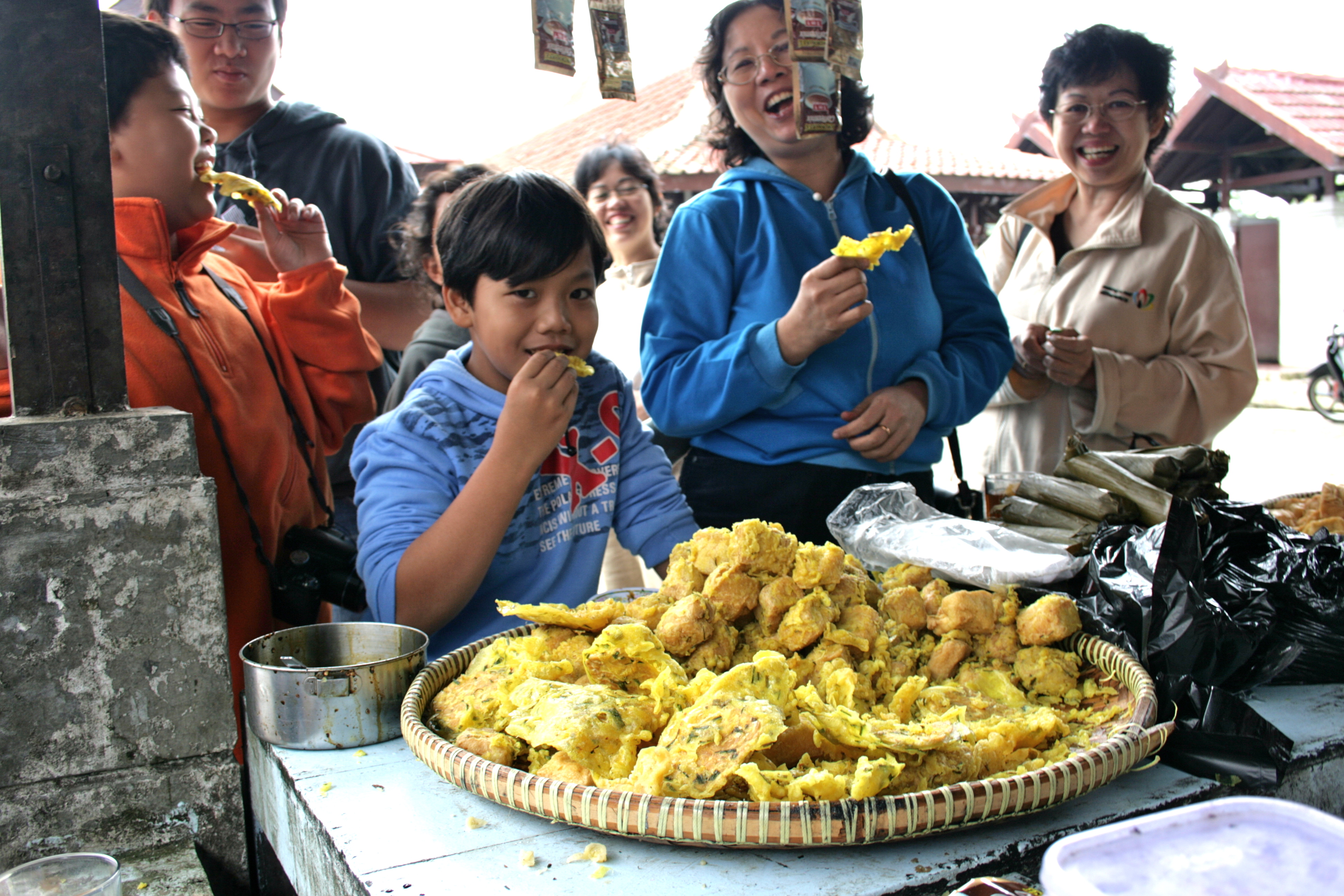 Gorengan (fried snacks) in Indonesian market